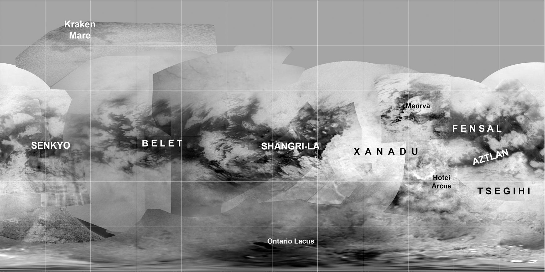 Map of Titan as known on January 2009